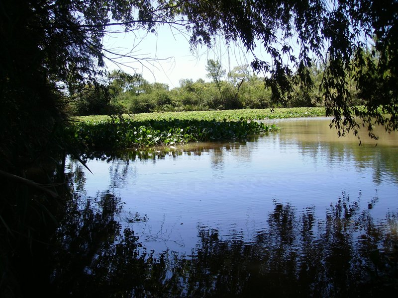 Delta Del Paraná.